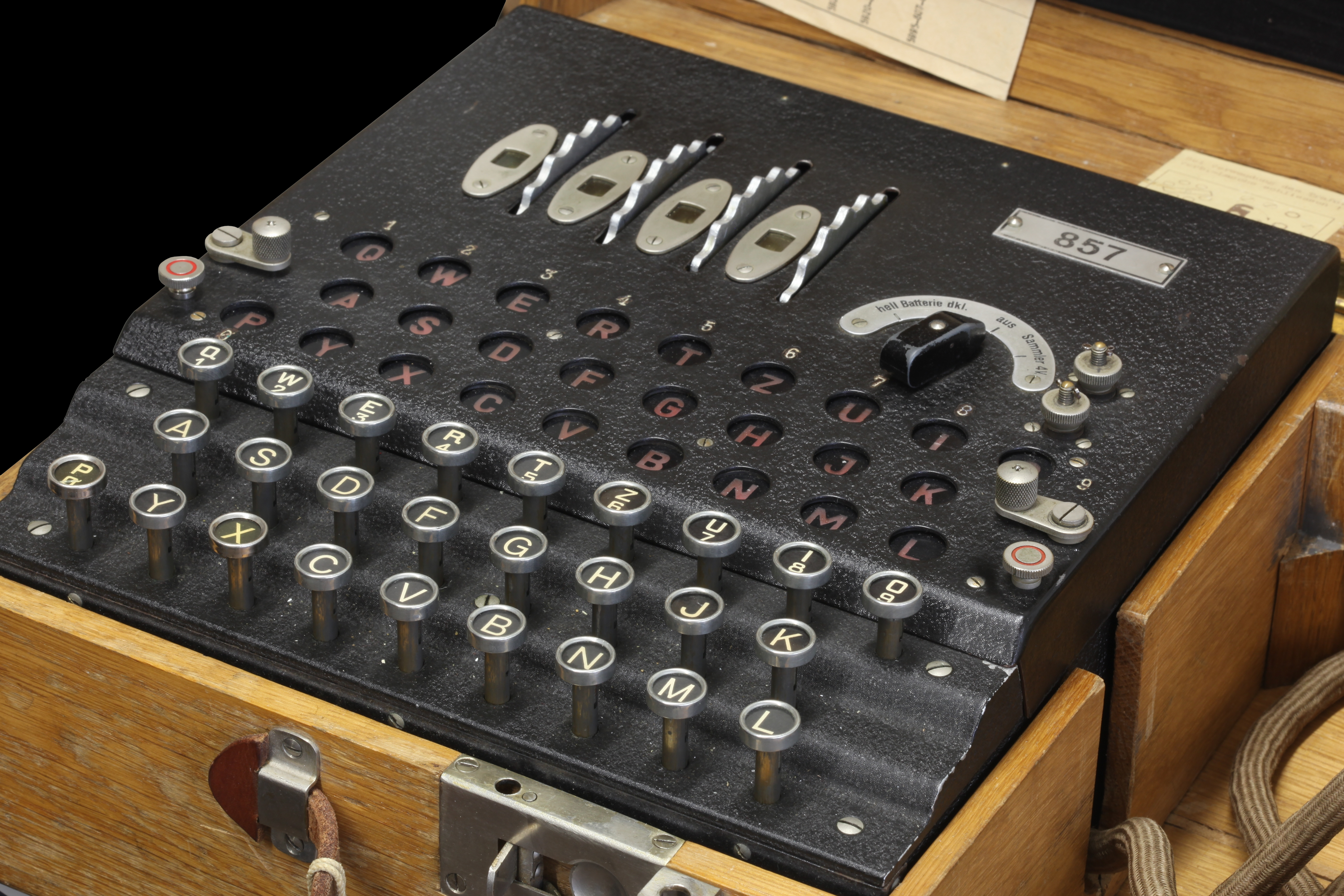 Enigma-K machine of the Swiss Army. Cryptography collection of the Swiss Army headquarters The making of this document was supported by Wikimedia CH. (Submit your project!) For all the files concerned, please see the category Supported by Wikimedia CH.